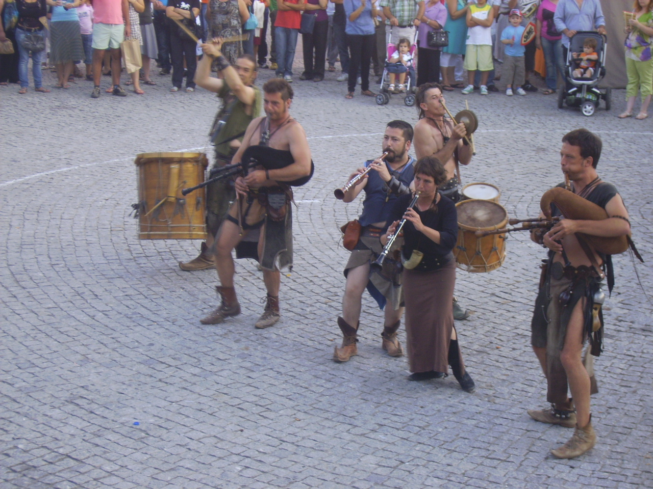 Medieval festival in Santa Maria da Feira - Digital Image (2007)